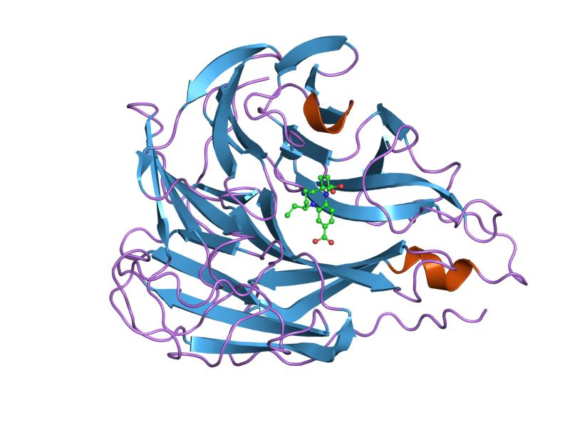 Cartoon representation of the molecular structure of protein registered with 1vcj code.